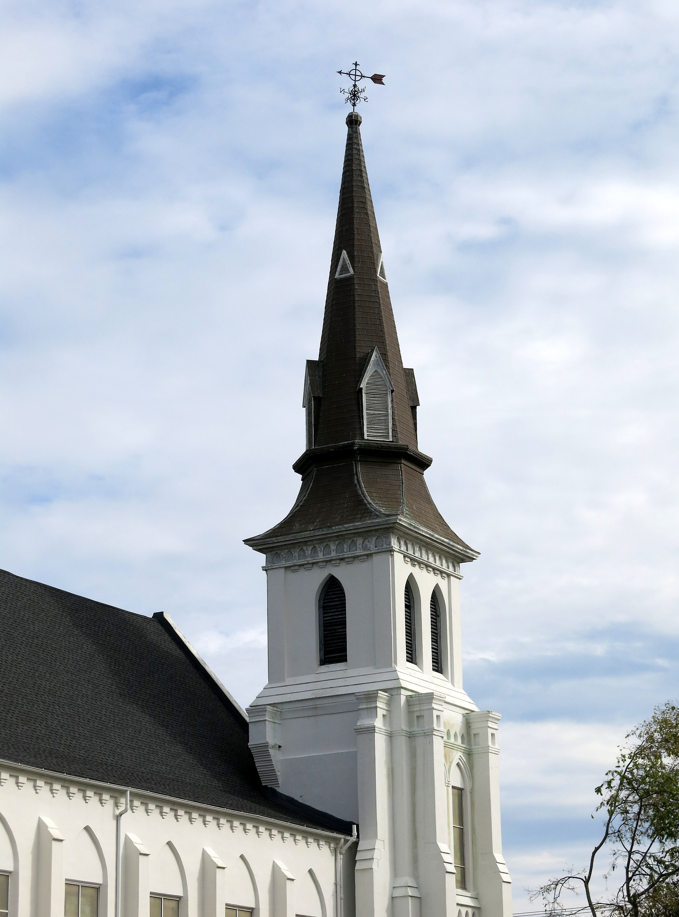 Emanuel African Methodist Episcopal (AME) Church is the oldest AME church in the south. It is referred to as "Mother Emanuel". Emanuel has one of the largest and oldest black congregations south of Baltimore, Maryland. The congregation dates back to the early 19th C. The present building was completed in 1891.